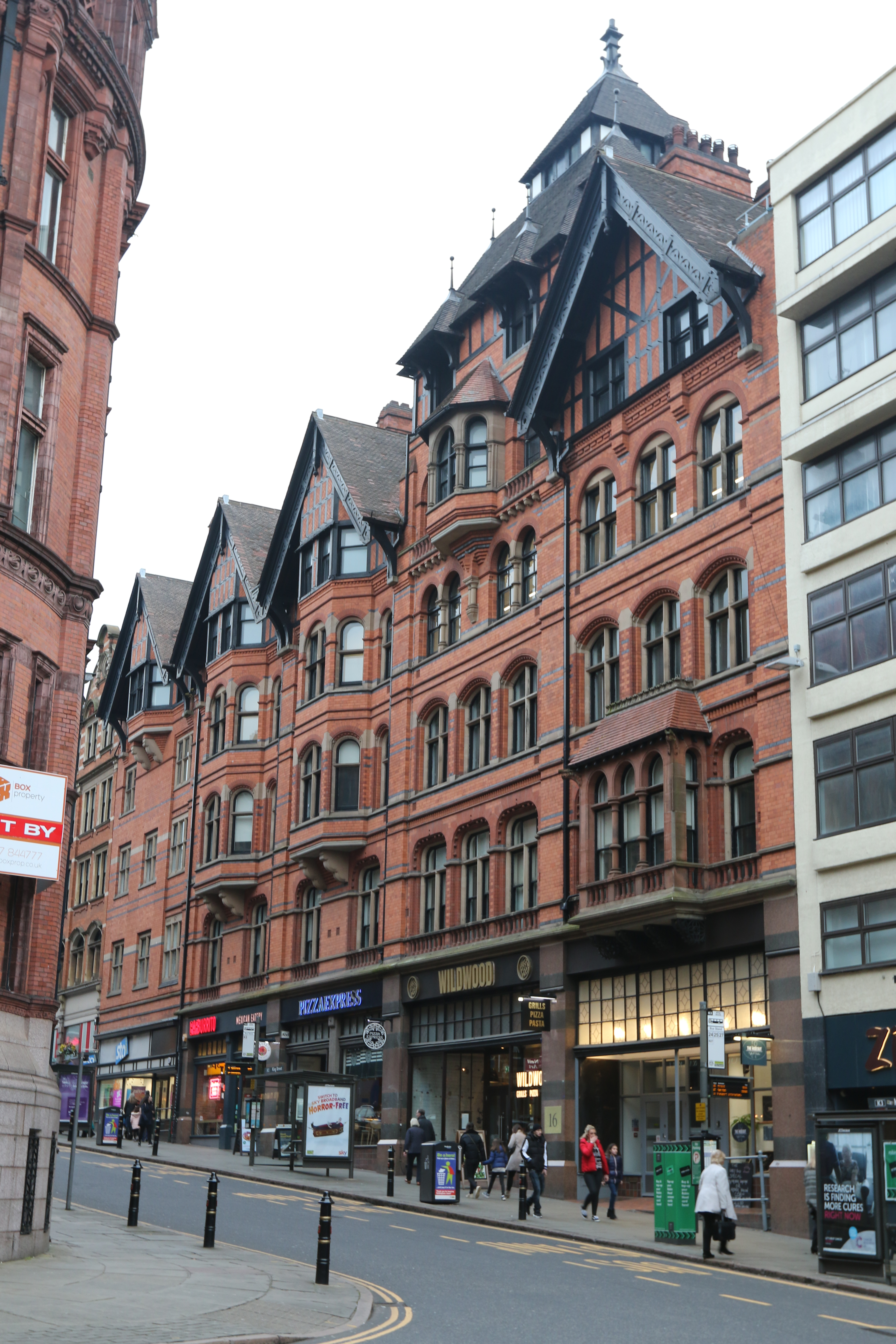 Dated 1895. By Watson Fothergill for Jessop & Son.